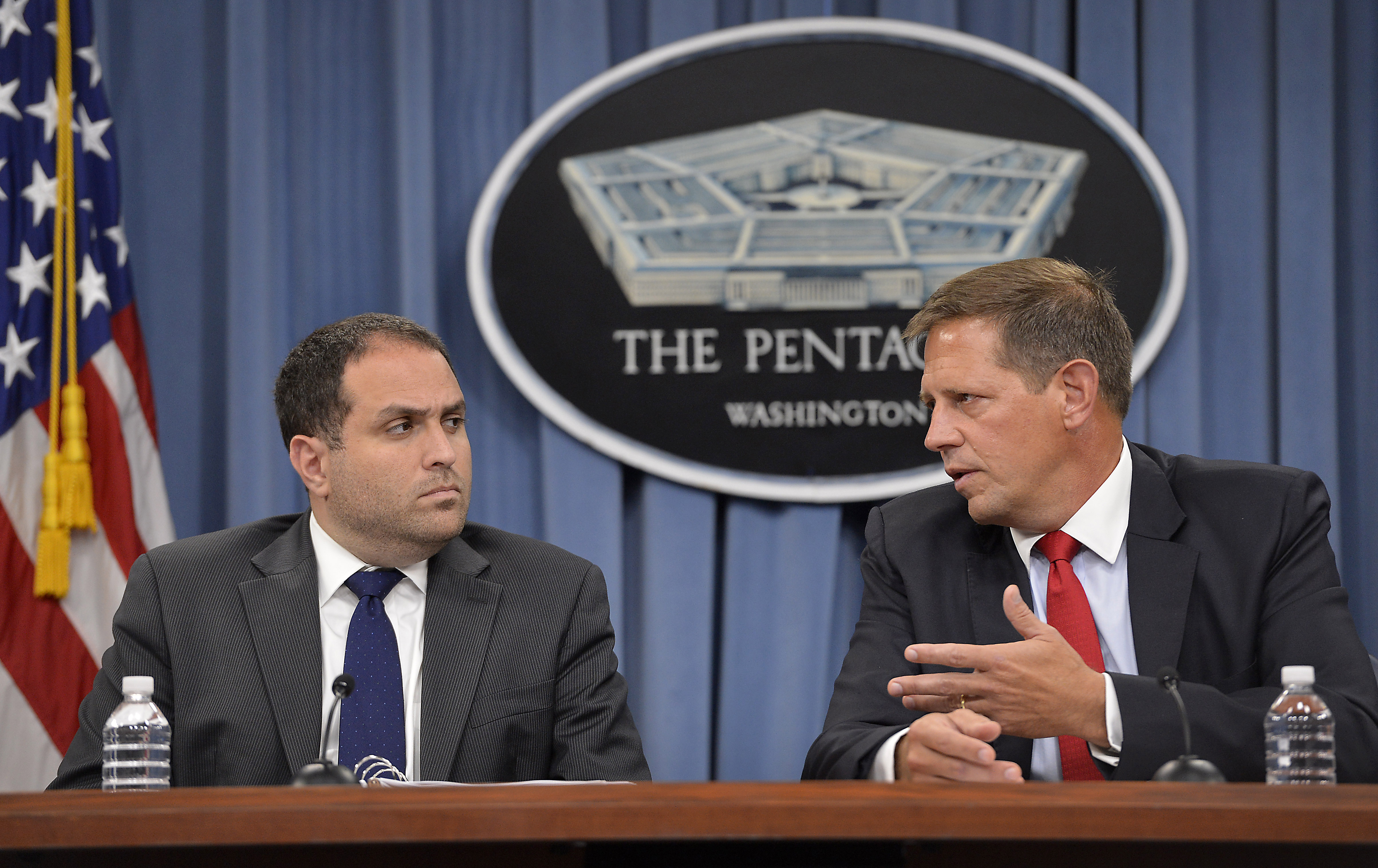 Acting Assistant Secretary of Defense for Asia Pacific Security Affairs Peter Lavoy, right, and State Department Deputy to the Special Representative to Afghanistan and Pakistan Jarrett Blanc brief the press on a report titled, "Progress Toward Security and Stability in Afghanistan," in the Pentagon in Arlington, Va., on July 30, 2013.